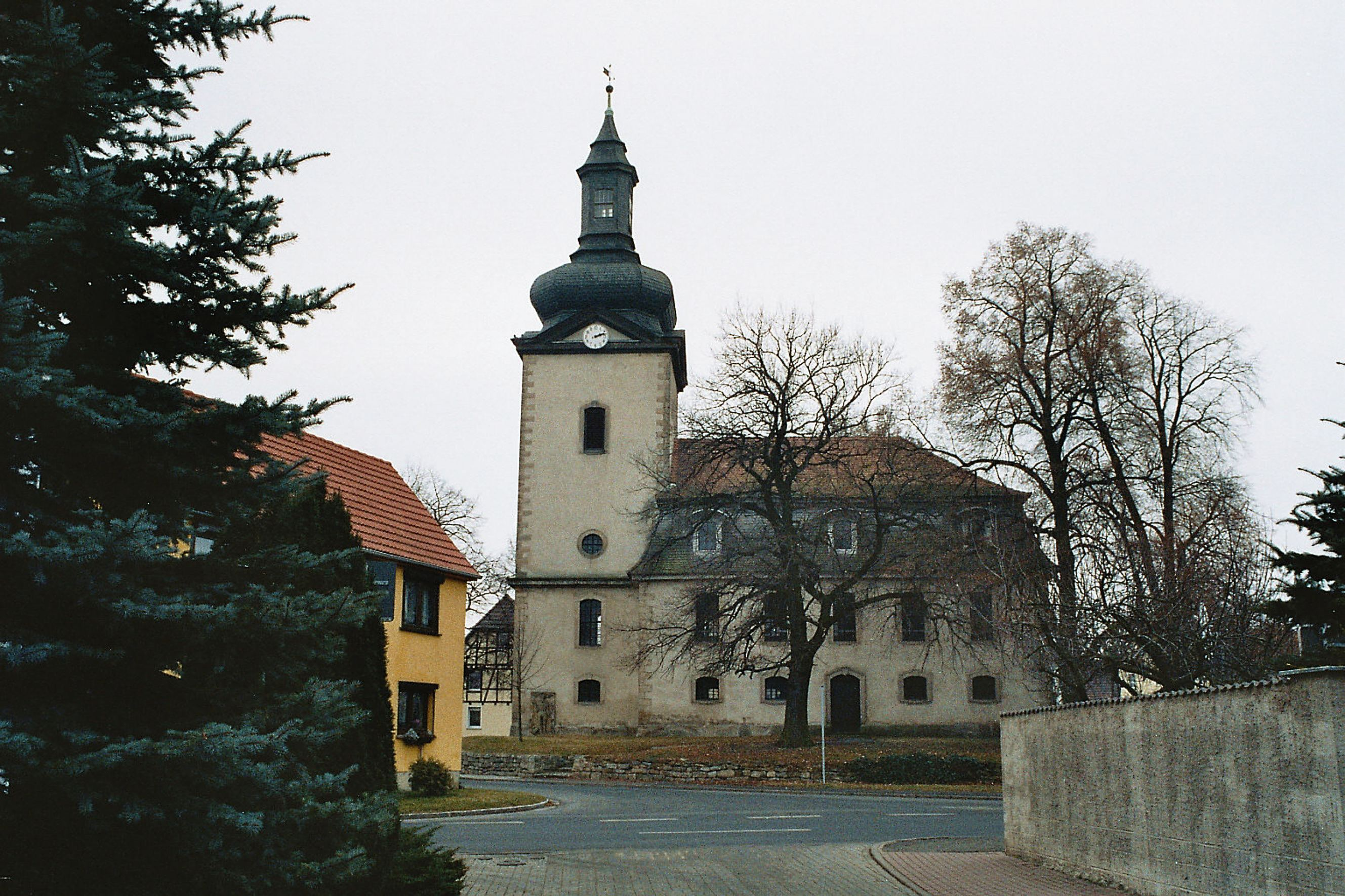 The village church